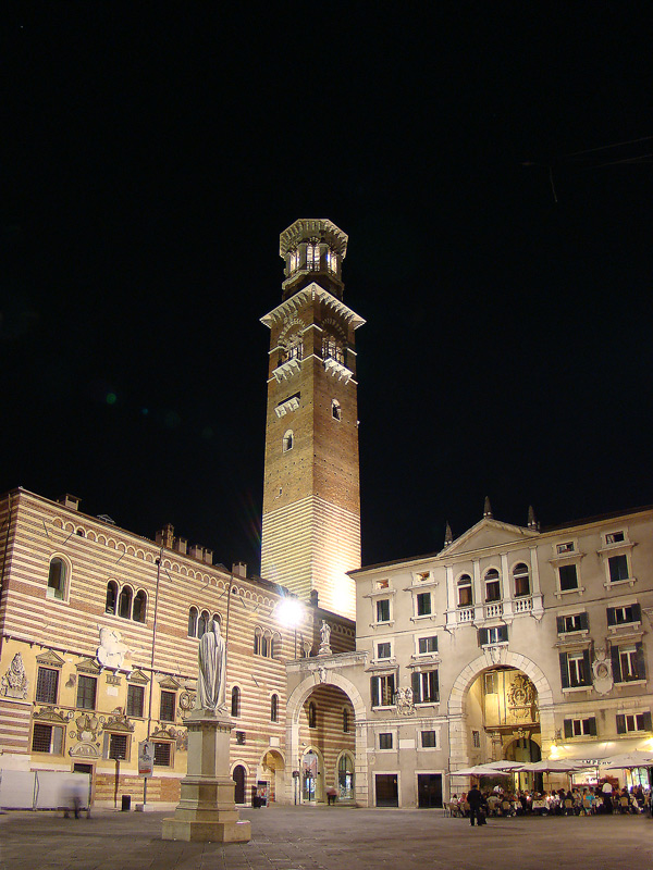 Piazza dei Signori, Verona, Veneto, Italy. Also called Piazza Dante due to the poet's statue in the center of the place. On the left is the 12C Town Hall, also known as the Palazzo della Ragione. This building is connected by an arch to the Law Courts, formerly Palazzo del Capitano. The Torre dei Lamberti dominates the place with its 84m high.